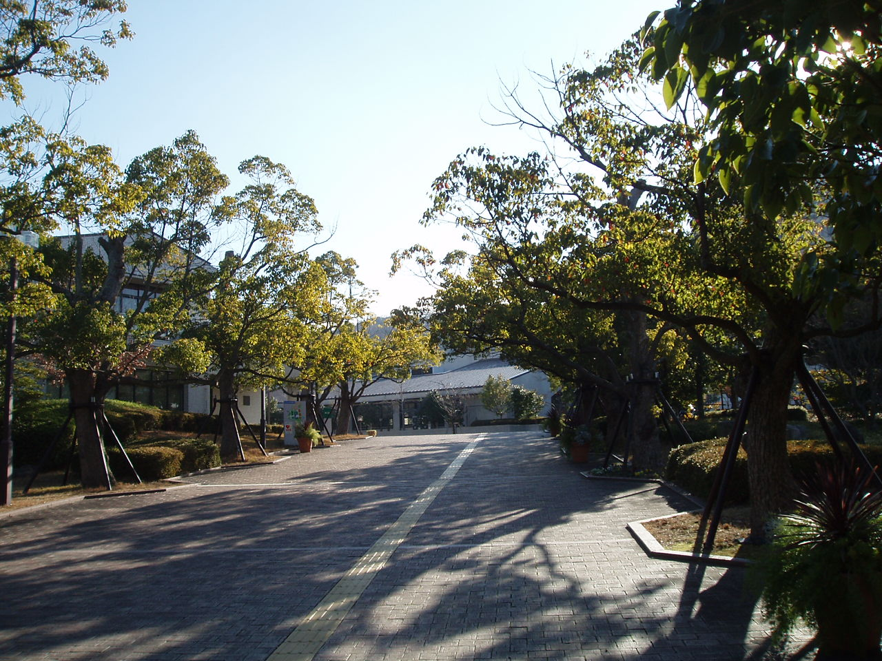 The slope to Kobe City University of Foreign Studies. Located in Nishi-ku, Kobe, Japan.